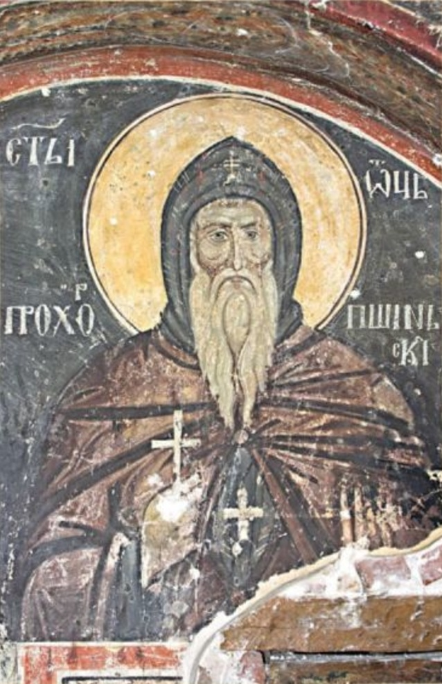 Fresco of Prohor Pchinski